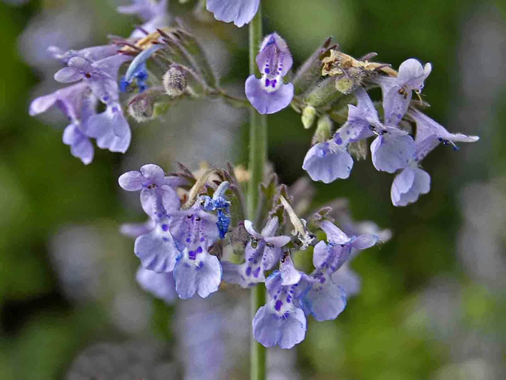 Nepeta nepetella at Orto Botanico dell'Università di Genova